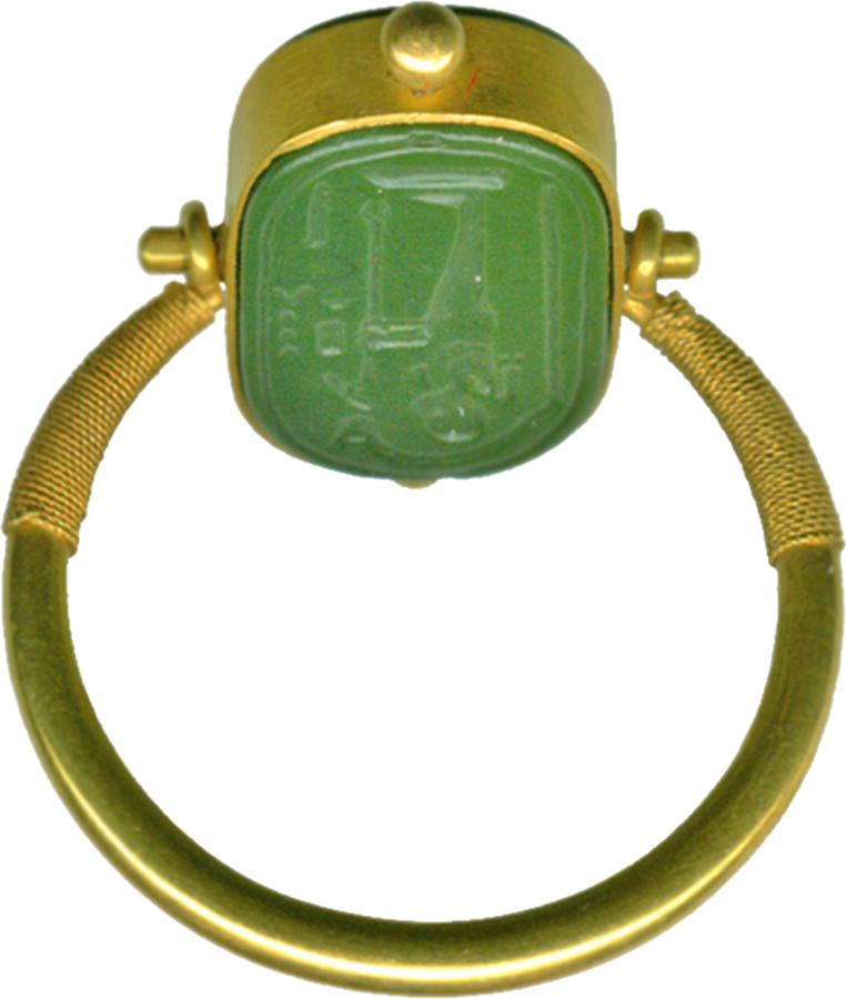 The ring is a moveable over pluck, which shows on one side. The standing figure of Ptah has a shrine with his name written in front of him. In the backside, the name Amun-Re is inscribed.